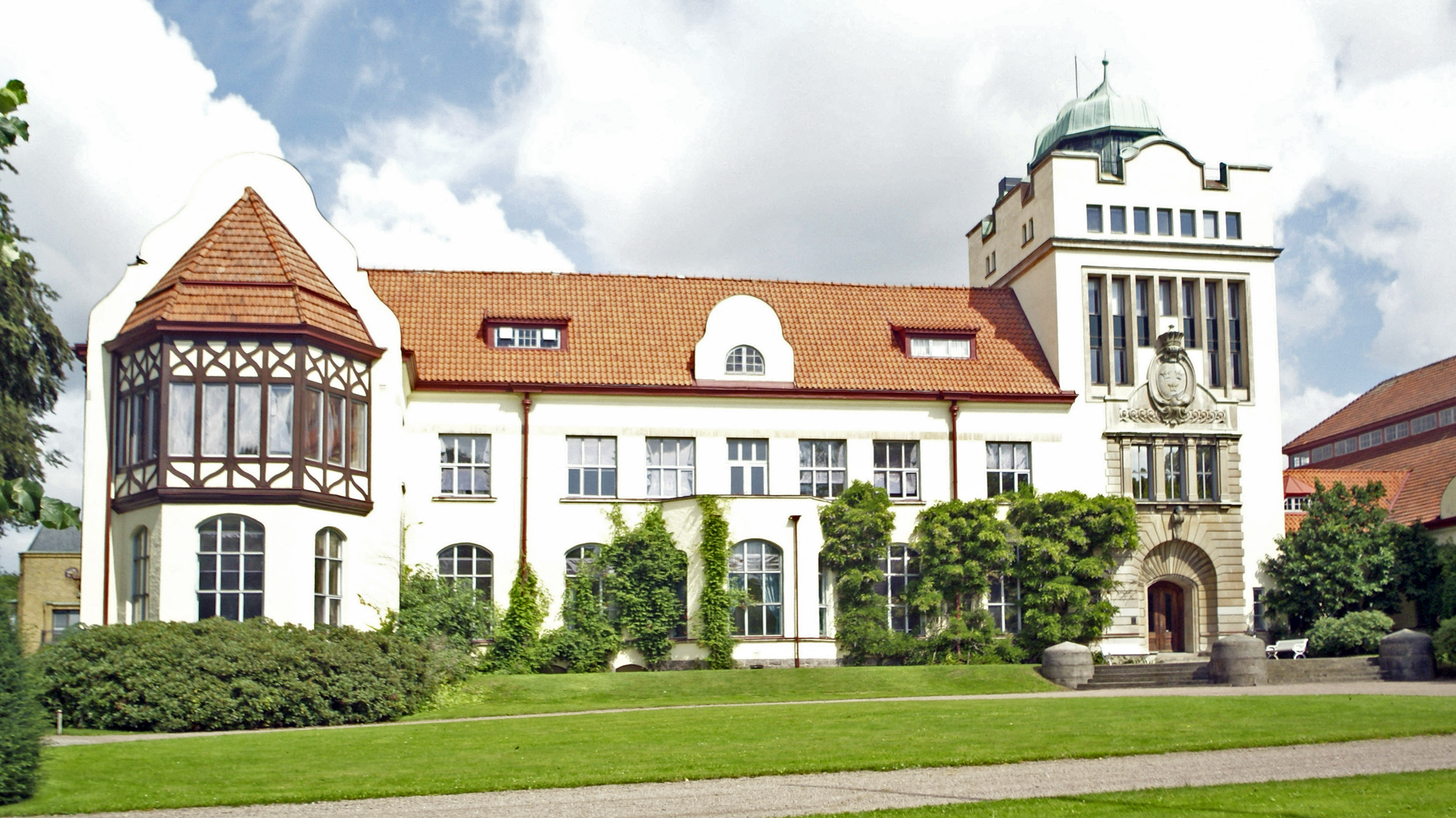 The headquarters of Lantmännen SW Seed in Svalöv